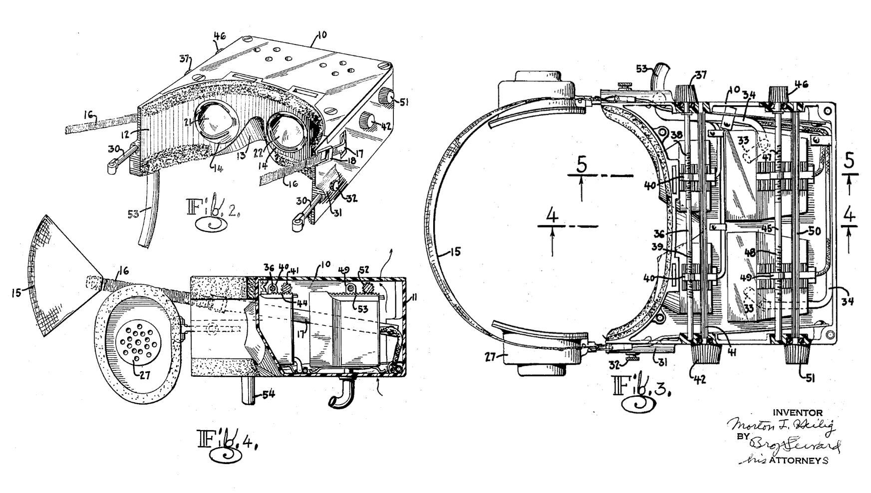 Morton Heilig patent - issued in October 1960